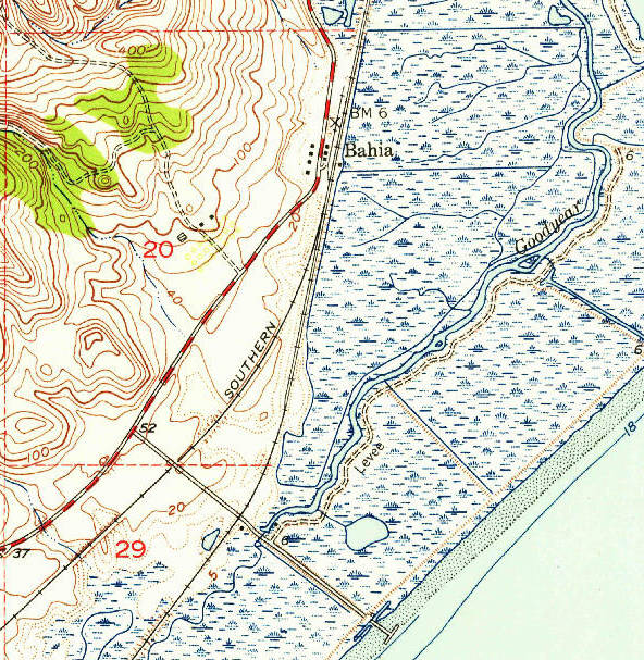 Bahia/Goodyear California in 1951